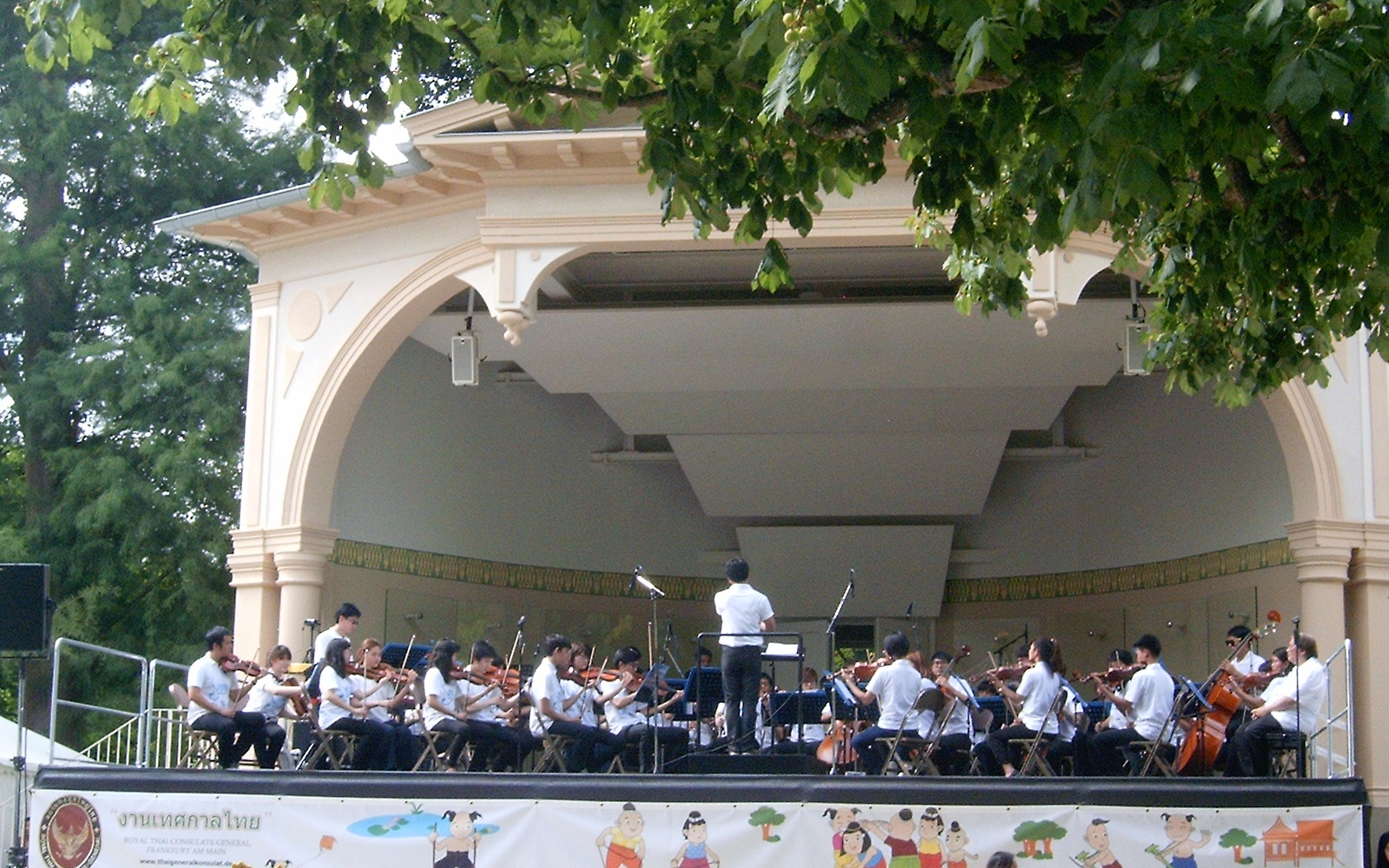 Siam Sinfonietta at the Thai Festival 2015 in Bad Homburg, Germany